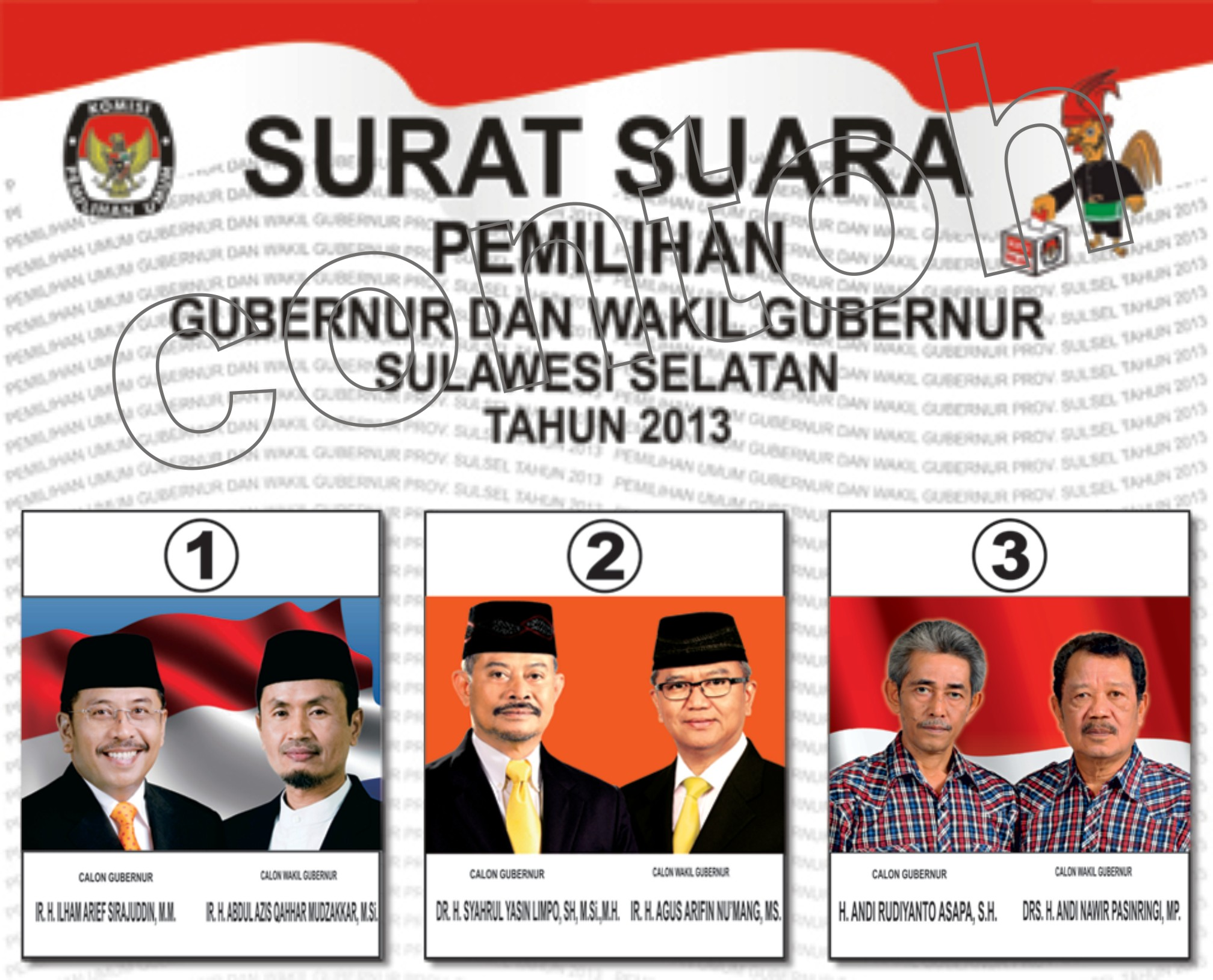 Voting Letters Sample, South SulawesiGovernor Election 2013